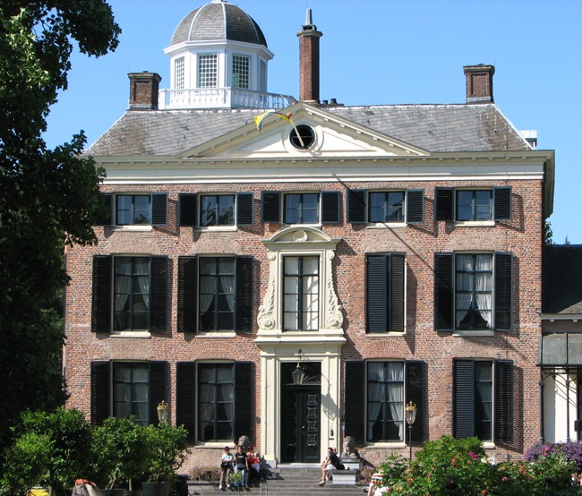 Picture of "Kasteel Rosendael" (Rosendael castle) in Rozendaal, the Netherlands